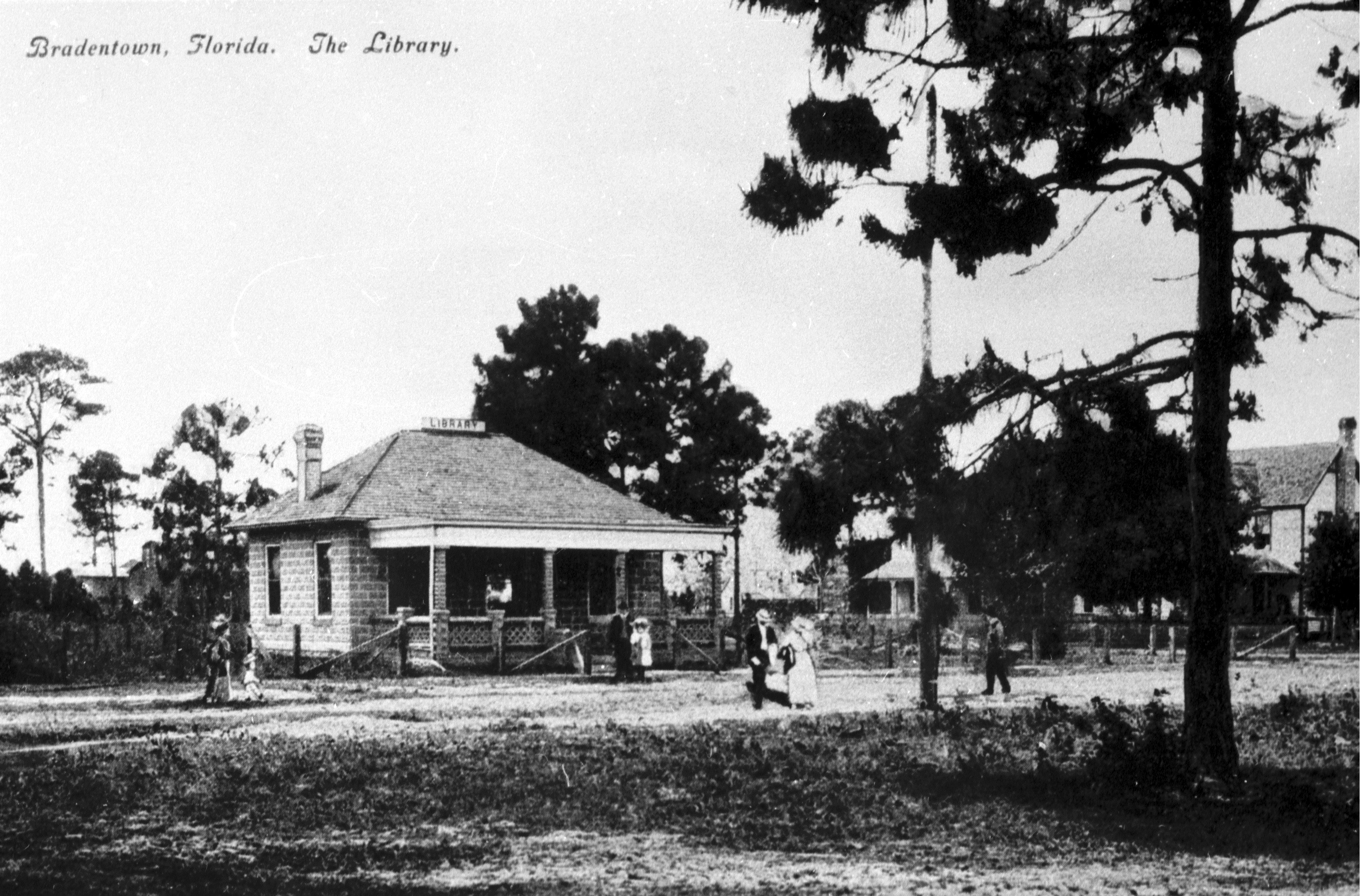 Original VIA Bradentown Library.